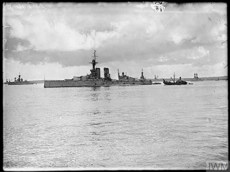 The battleship HMS King George V at anchor in the Firth of Forth, 1917. Adjacent is the submarine HMS K4